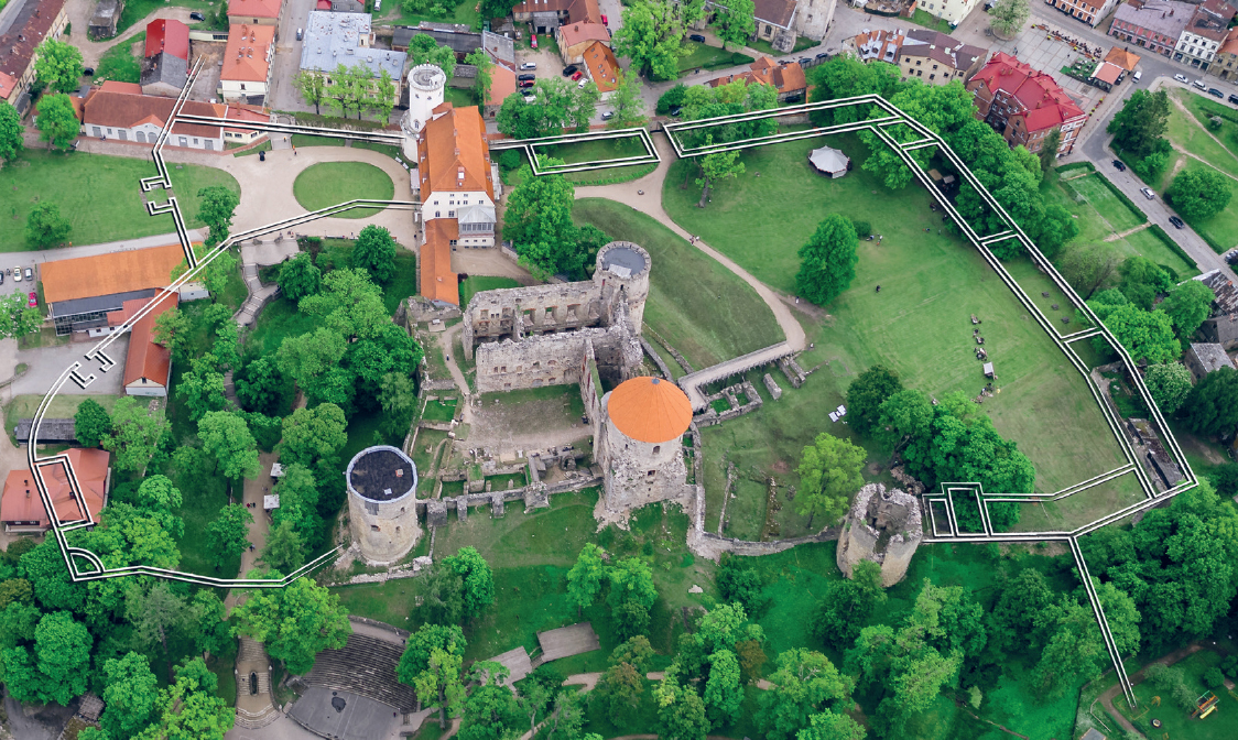 Aerial view of Cesis Castle